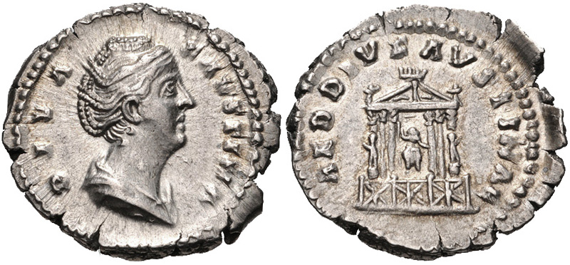 Diva Faustina Senior. Died AD 140/1. AR Denarius (18mm, 3.40 g, 6h). Rome mint. Struck under Antoninus Pius, AD 146-161. Draped bust right Hexastyle temple in which is a seated figure of Faustina Senior. RIC III 343 (Pius); RSC 1.